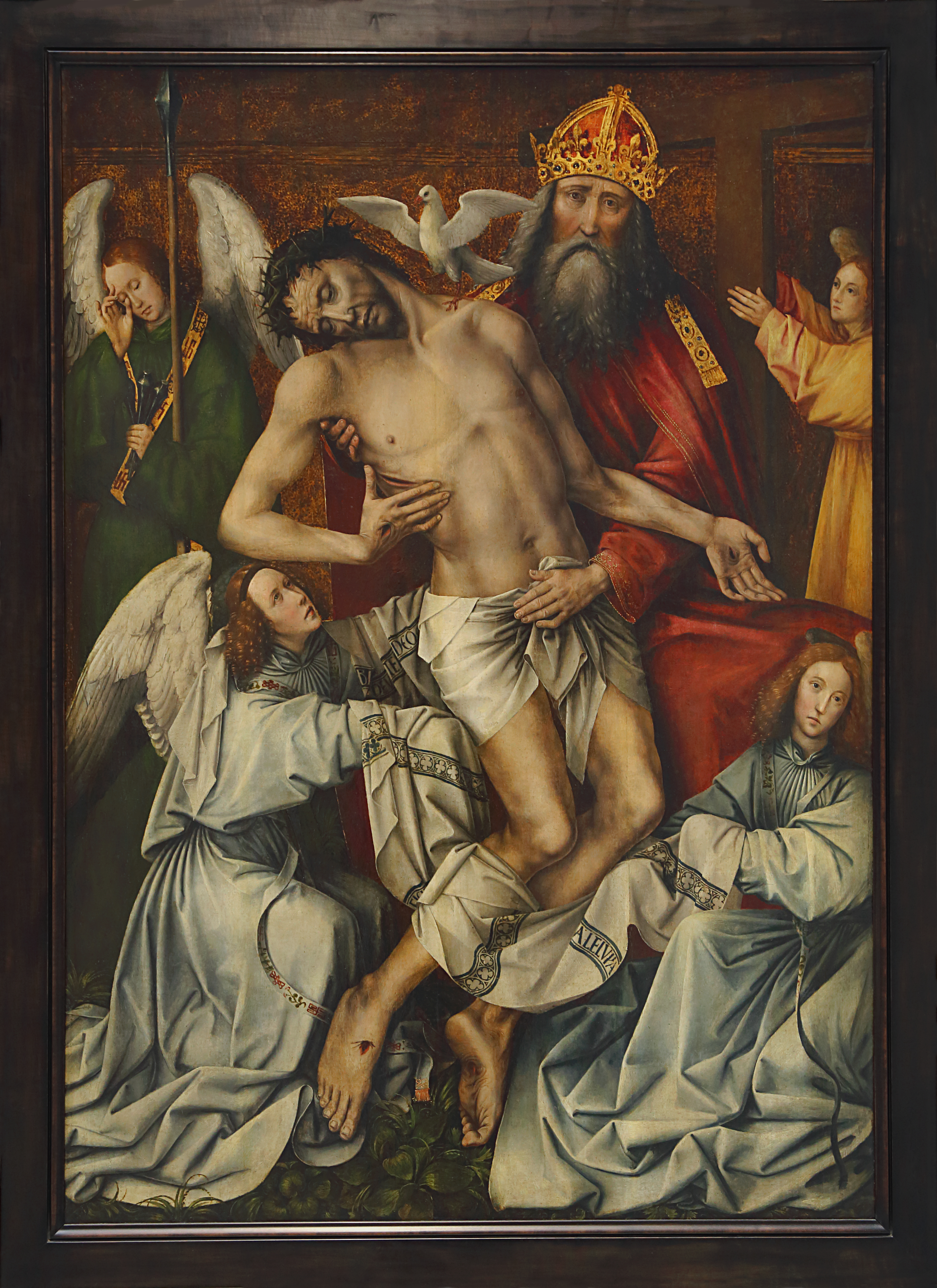 Colijn de Coter, Brussel ? (Belgium), ca 1450 - 1455 - Brussel (Belgium), ca 1539 - 1540 Ca 1510 - 1515, The Holy Trinity, with God the Fater supporting Christ. Oil on wood panel. Louvre-Lens Museum, France.